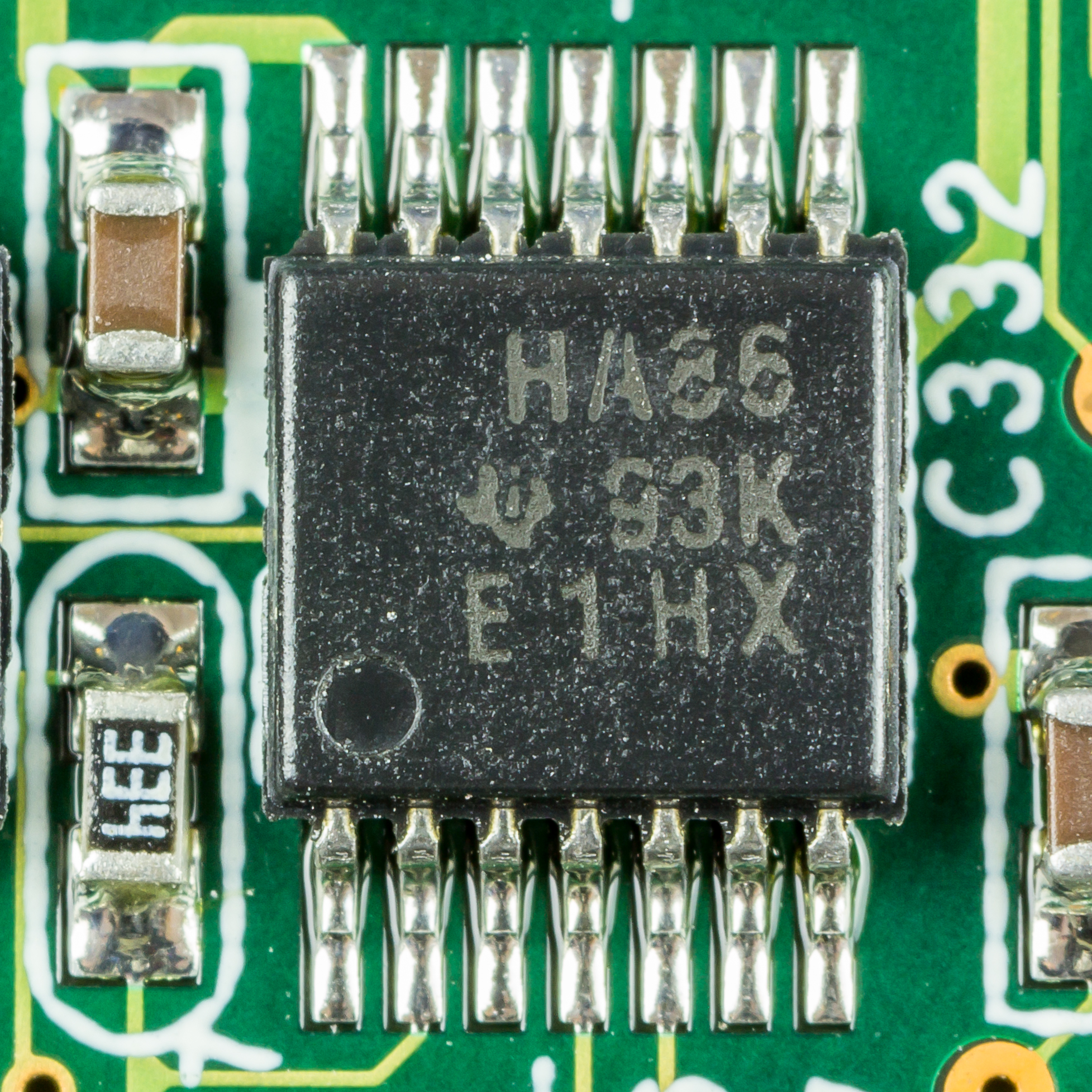 Lifetec LT9303 - Motherboard - Texas Instruments SN74AHC86 - marked as HA86 - QUADRUPLE 2-INPUT EXCLUSIVE-OR GATES